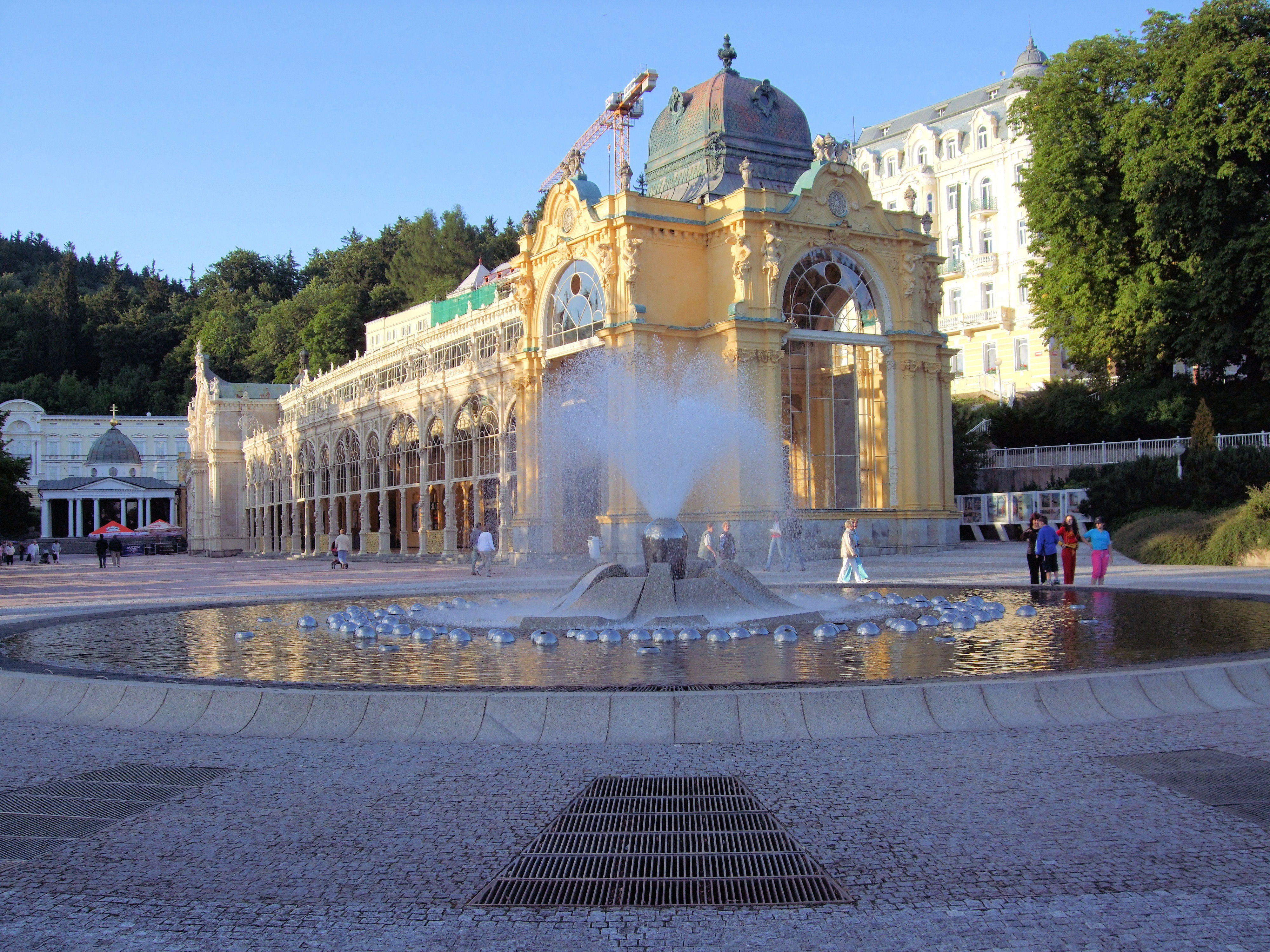 Zpívající fontána v Mariánských Lázních. The Singing Fountain is one of Mariánské Lázně's unique wonders. It is a round pool with a diameter of 18 m featuring a 12-piece stone sculpture representing a flower in the center of its shallow bowl. The core of the flower is made of polished stainless steel. The fountain contains 10 intrinsic water jet systems with more than 250 water jets. The water gushes from the water jet in the center up to a height of 6 meters. The creator of this artwork is the architect Pavel Mikšík. The first music piece for the Singing Fountain was composed by the Czech composer Petr Hapka. Other compositions followed, namely works by Chopin, Mozart, Bach, Gounod, Smetana, Dvořák and others. The fountain's spellbinding tones resound at every odd hour and the compositions are repeated regularly. The Singing Fountain was first heard on the 30th of April 1986.